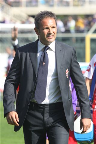 Former defender Siniša Mihajlović, then (2010) Fiorentina coach.